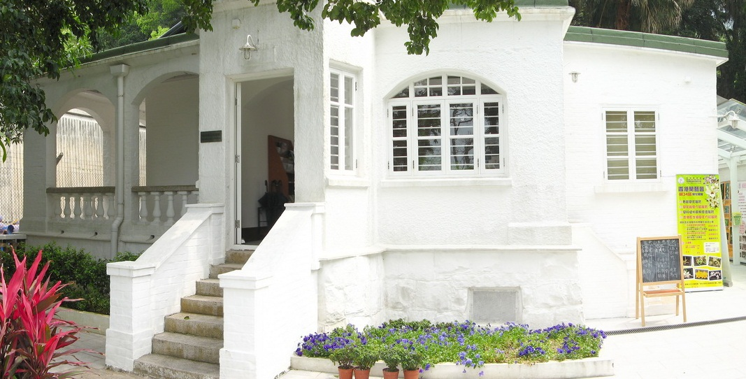 West Point Filters Bungalow, a Grade I historic building. Part of the Lung Fu Shan Environmental Education Centre located at 50 Kotewall Road, Mid-Levels, Hong Kong.